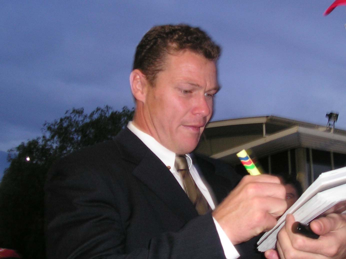 Cronulla Half back Mitch Healey - Sydney Football Stadium 2005